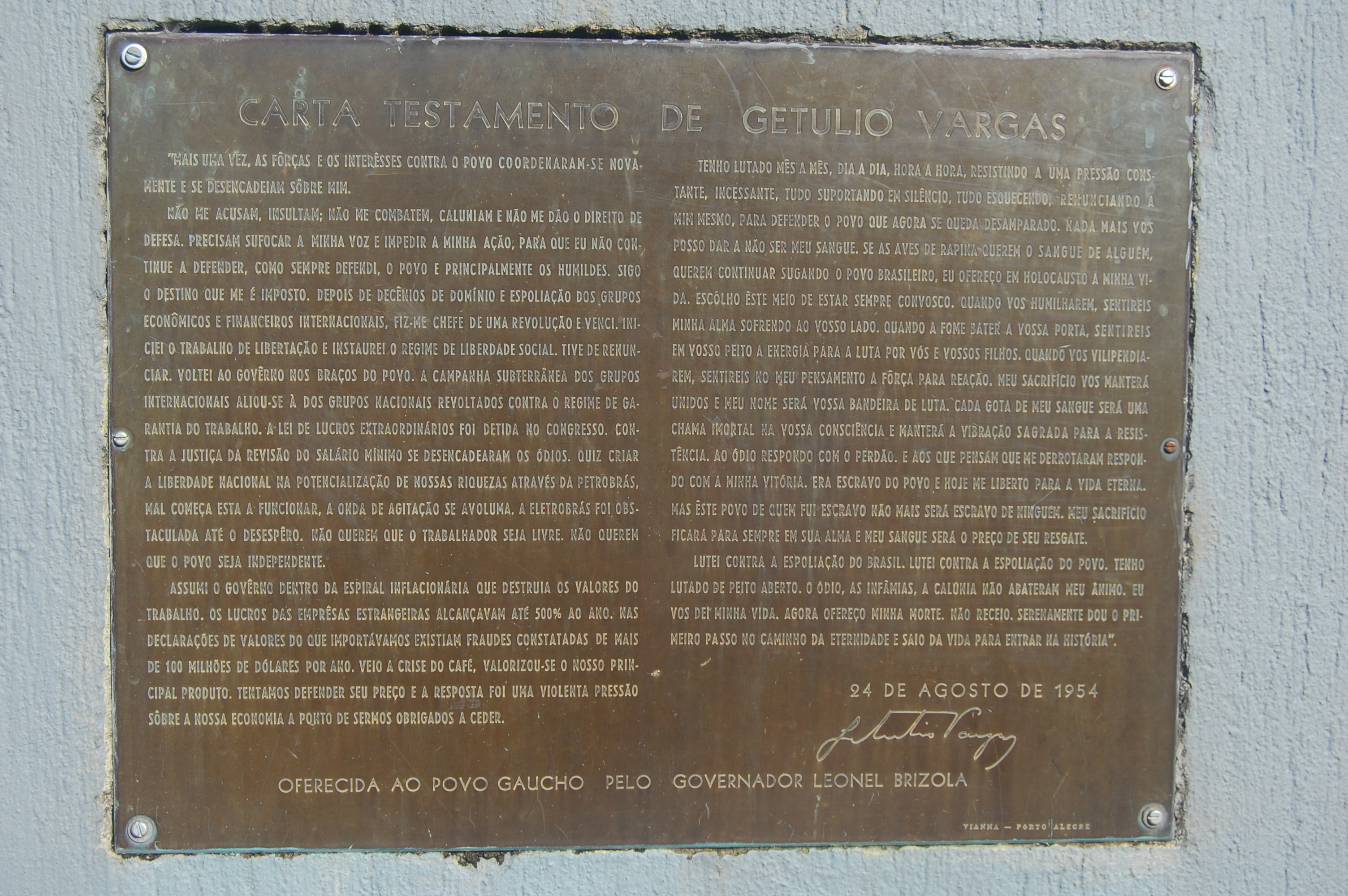 Replica of the testament letter will of Getúlio Vargas, located in the Praça de Flores in Nova Petrópolis.